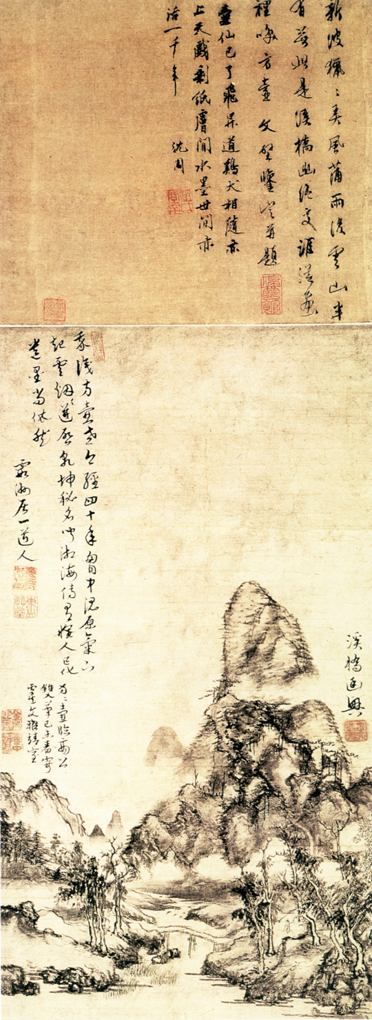 Bridge on the Creek, Fang Congyi, Yuan Dynasty, China, Palace Museum, Beijing.